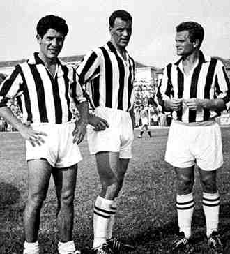 Omar Sívori, John Charles, Giampiero Boniperti.